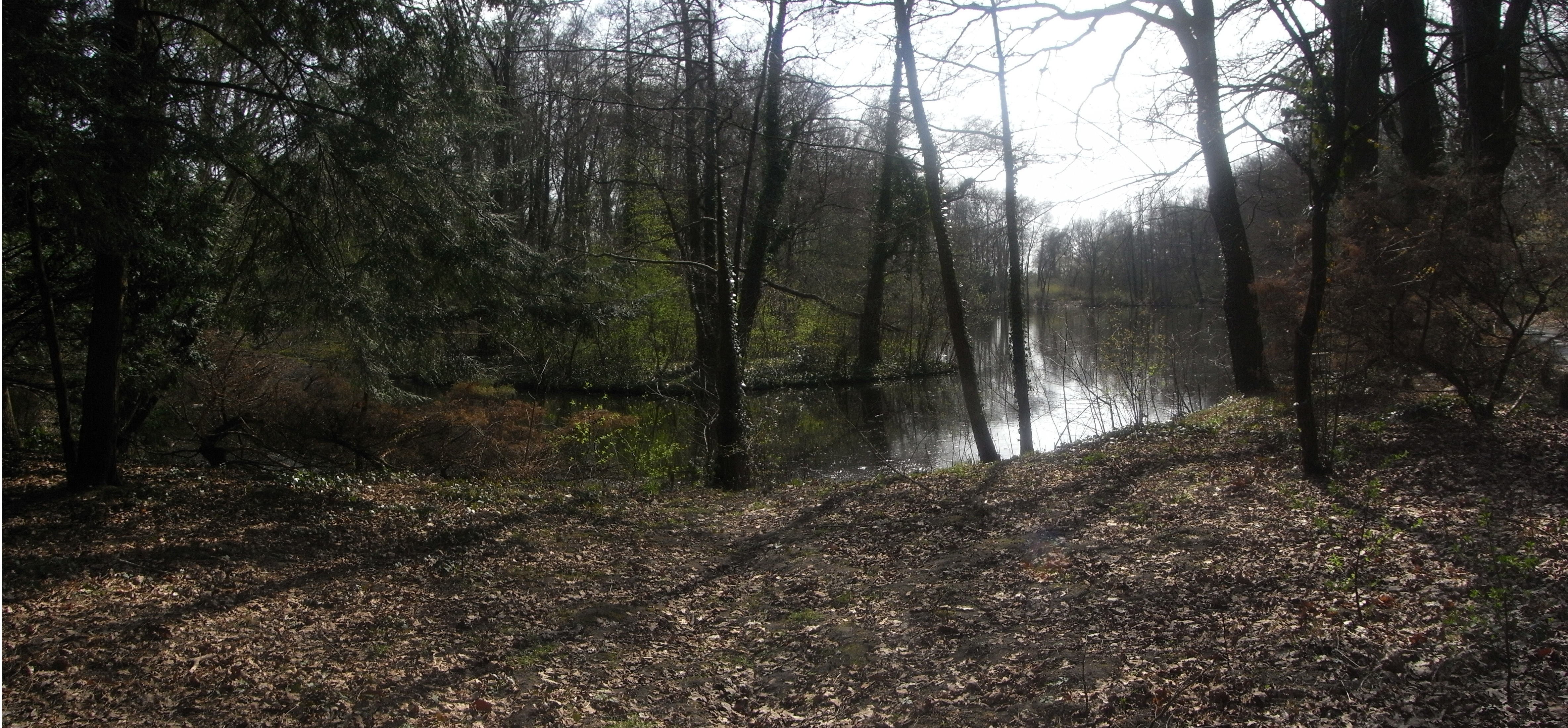 Steinberg Pond in Steinberg-Park in Berlin-Wittenau